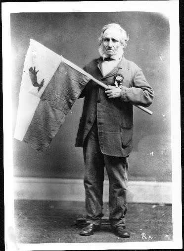 B&W from ca. 1870 shows Bear Flagger Peter Storm, with his Bear Flag, which he claimed was the first, preceding Todd by about one week.